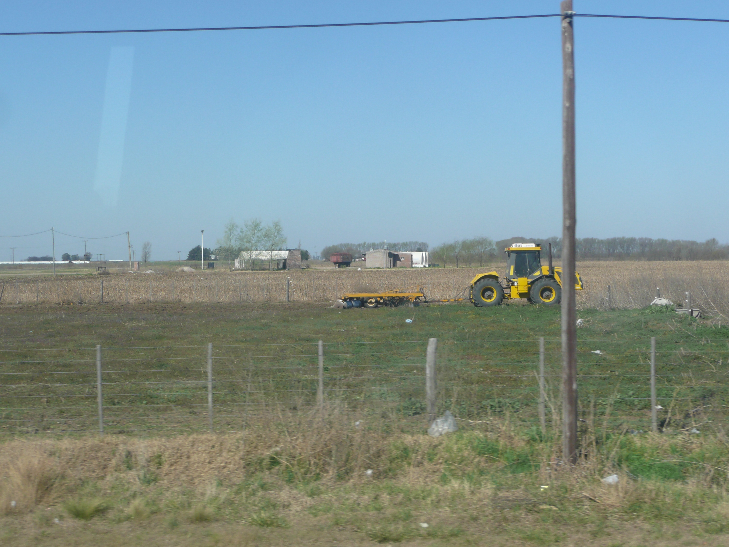 Route 33 from Fortín Olavarría to Trenque Lauquen.